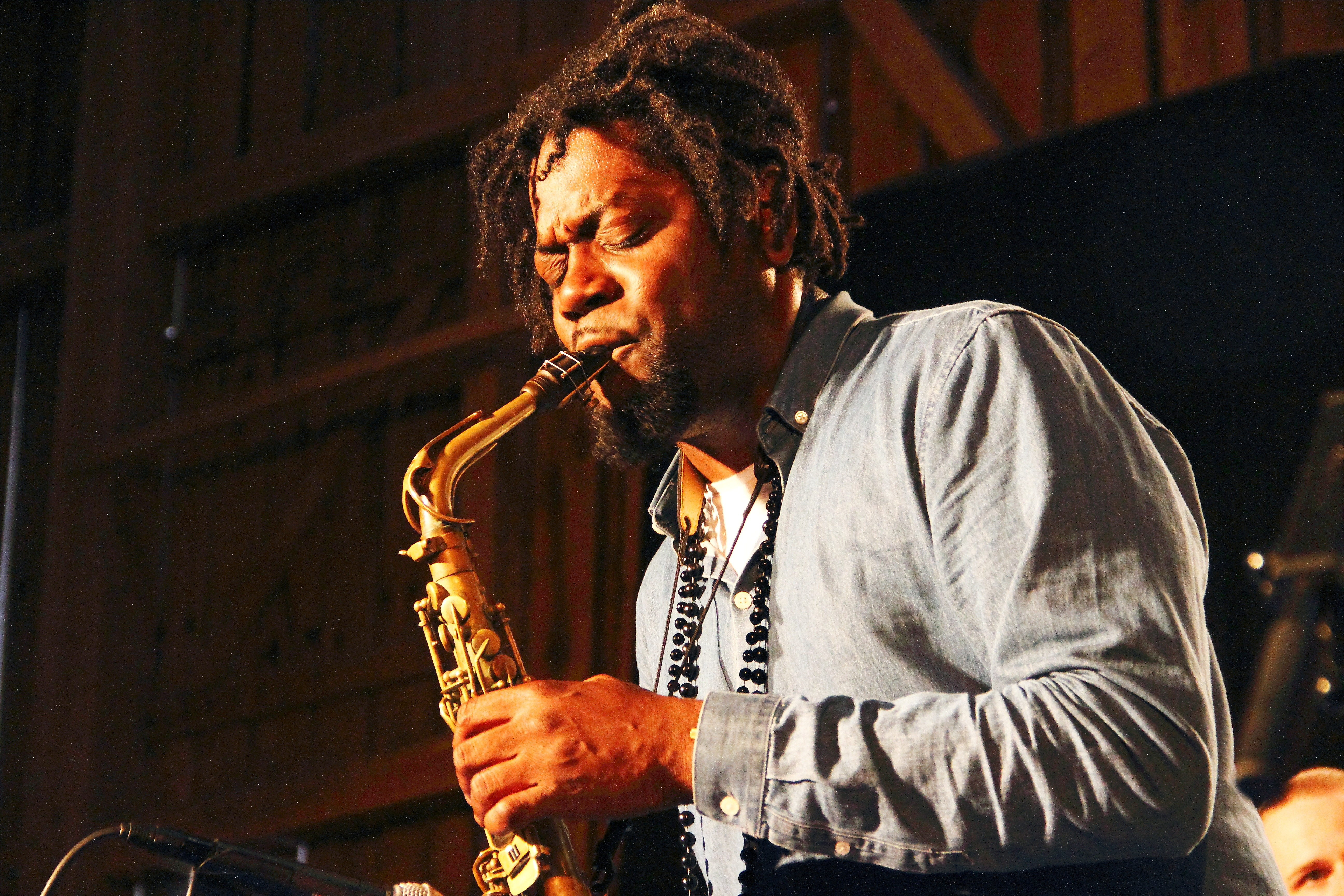 Soweto Kinch and his trio at INNtöne Jazzfestival 2018.